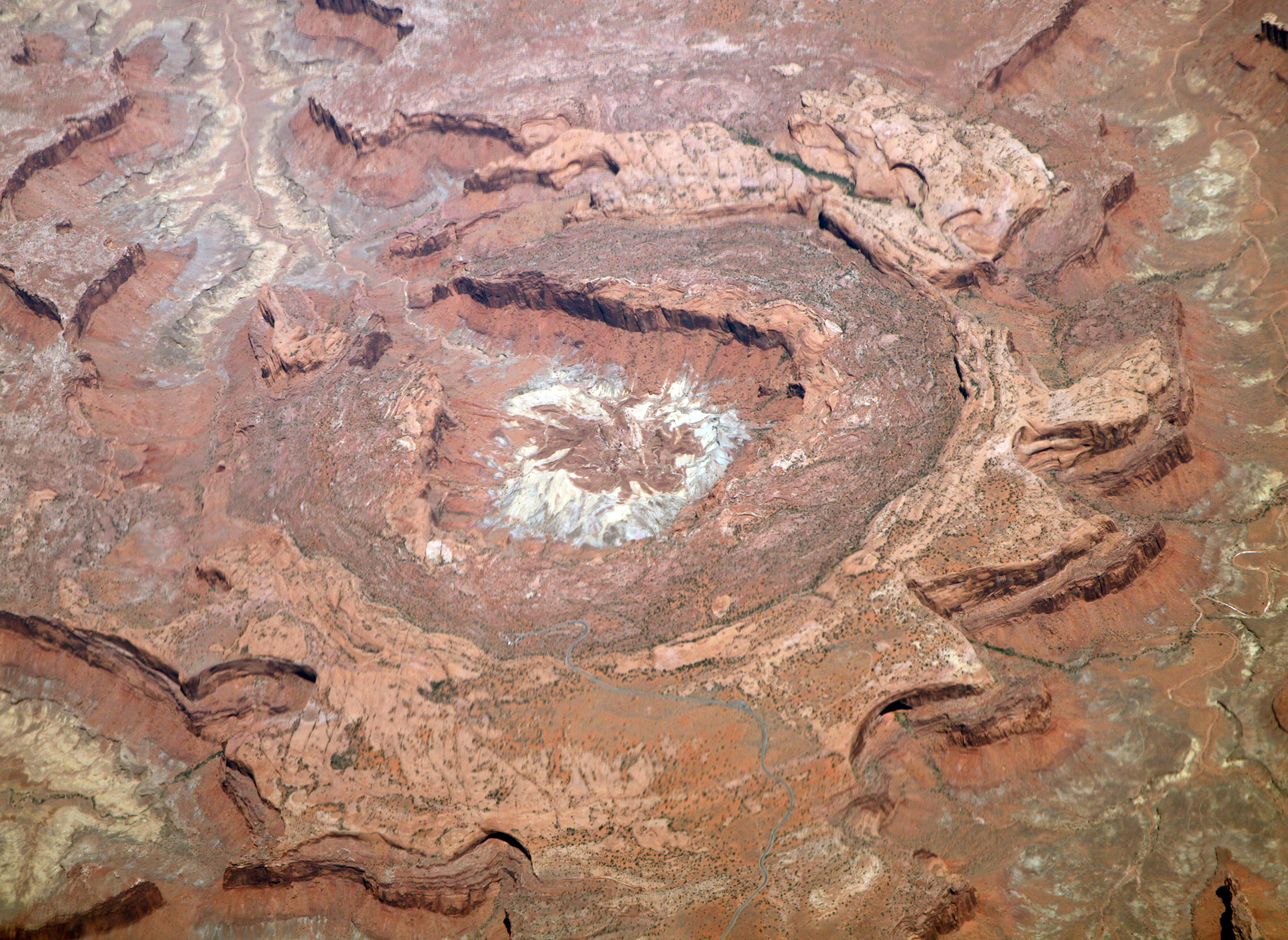 The Upheaval Dome, an impact crater, probably of Jurassic age, in Canyonlands National Park west of Moab, Utah. It's about 5 km (2 mi) from rim to rim, though concentric circles from the impact itself are visible in the surrounding surface.